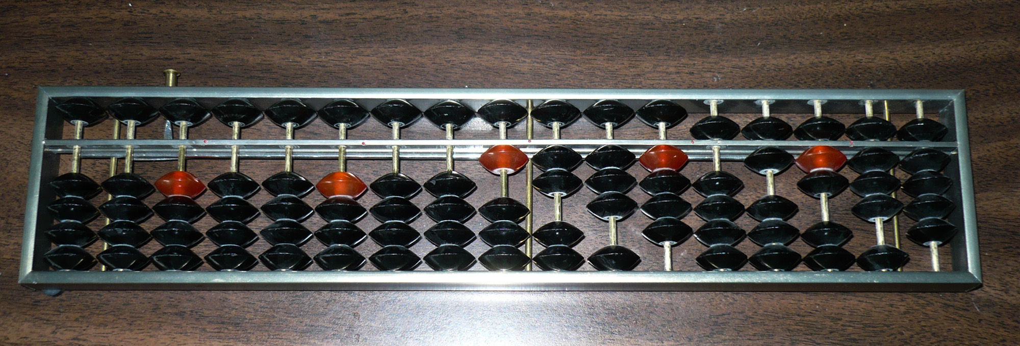 Positional decimal system on Chinese abacus: number 123456789 中文（中国大陆）: 算盘上的十进位制 123456789